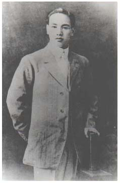 Chiang Kai-shek in 1912 Bân-lâm-gú: 1912-nî ê Tsiúnn Kài-tsio̍h. 1912年的蔣介石。